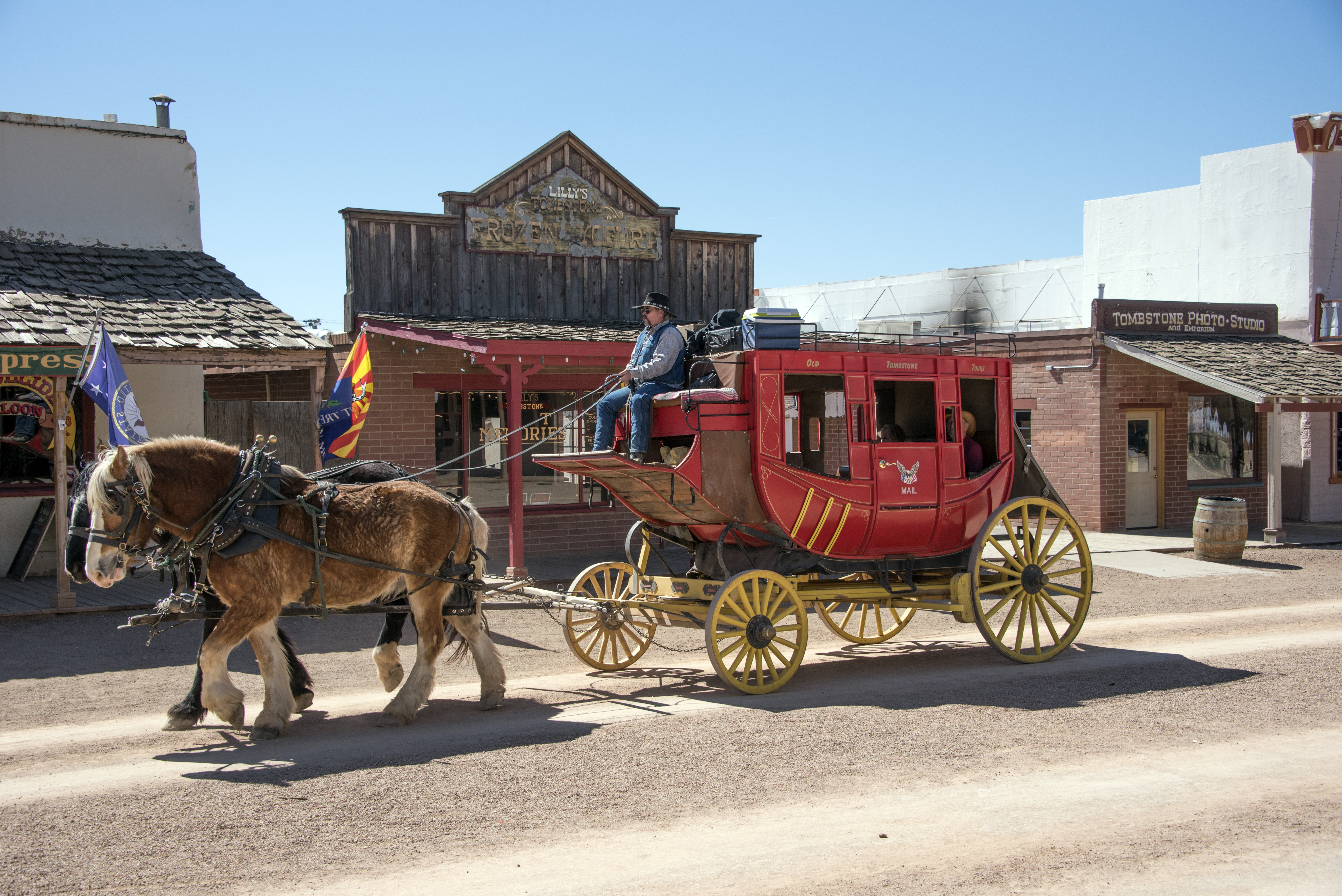 Tombstone Historic District, with the Mail Coach.